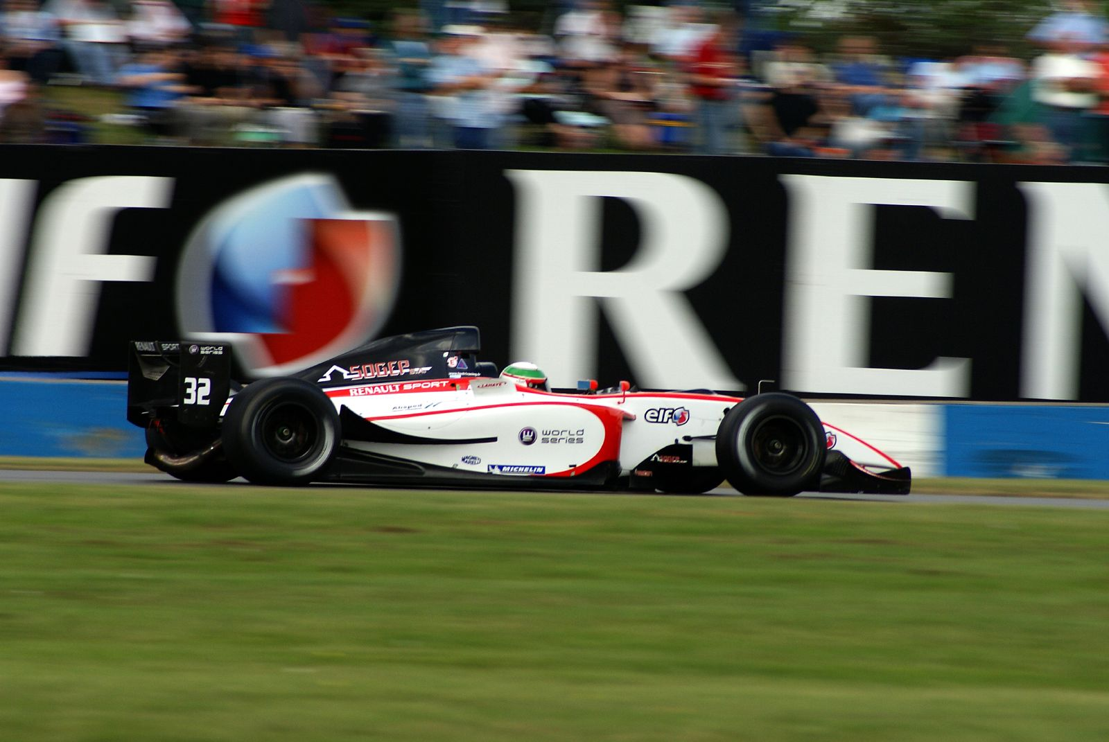 Álvaro Parente driving for Tech 1 Racing at the Donington Park round of the 2007 World Series by Renault season.